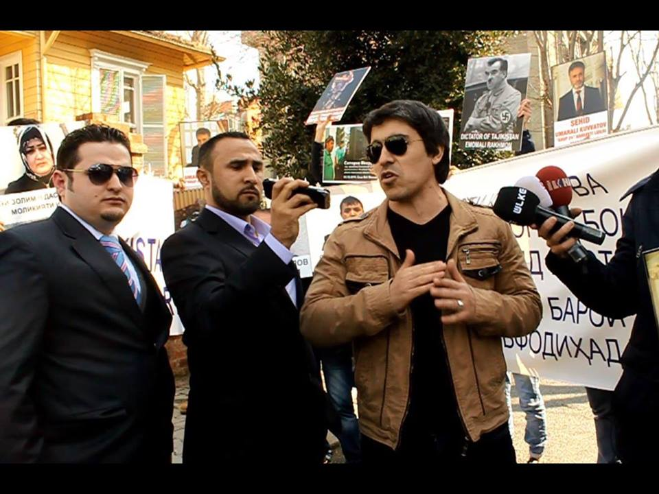 Suhrob Zafar, Huseyn Ashurov, Nuriddin Risoi